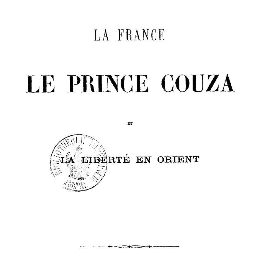 Cover of a propaganda pamphlet published by unknown authors: La France, le prince Couza et la liberté en Orient ("France, Prince Cuza and Liberty in the Orient"). It purports to show the authoritarian excesses of the Romanian prince, Alexander John Cuza, to his supporters in the Second French Empire. Published in Paris.